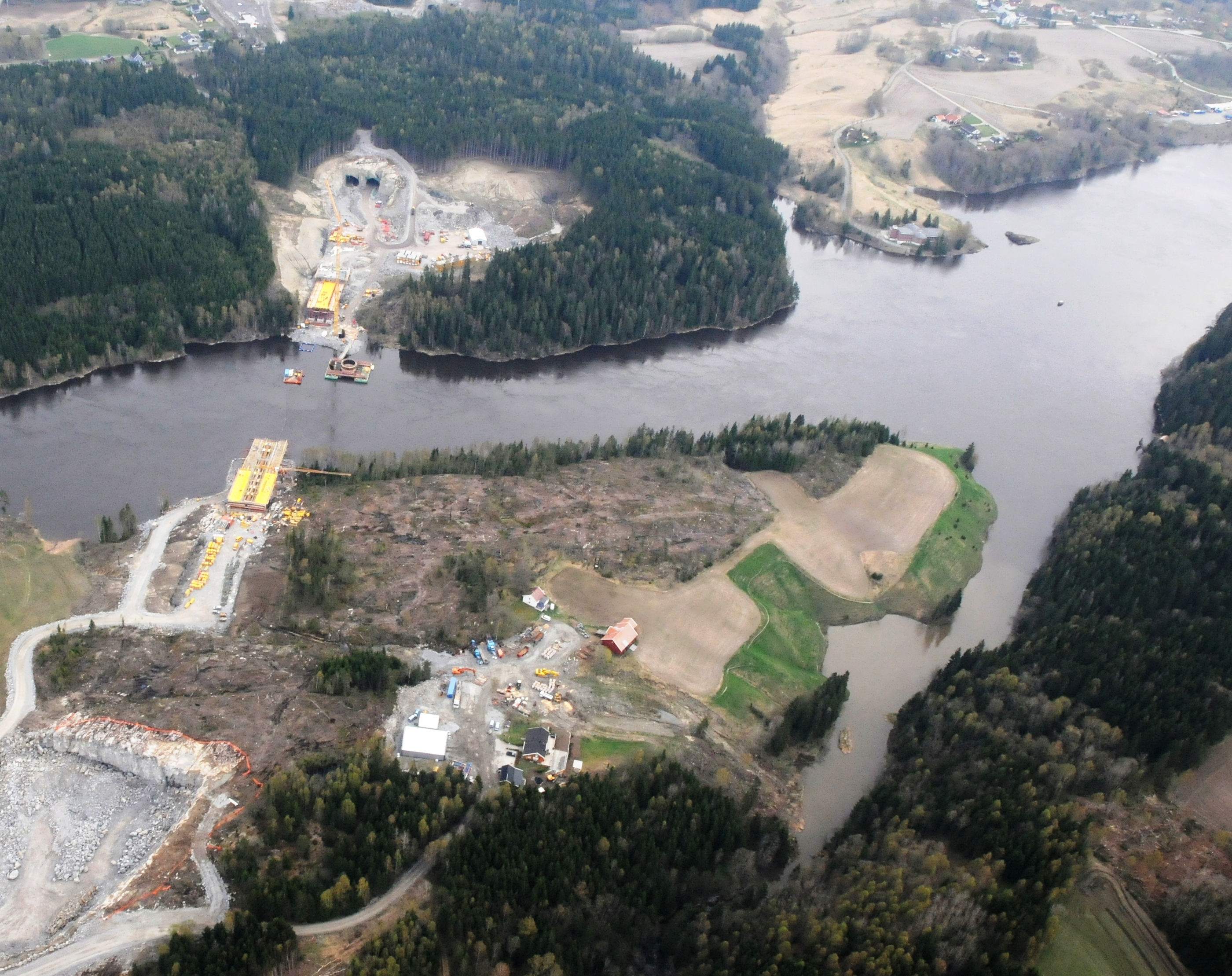 Smaalenene bridge under construction